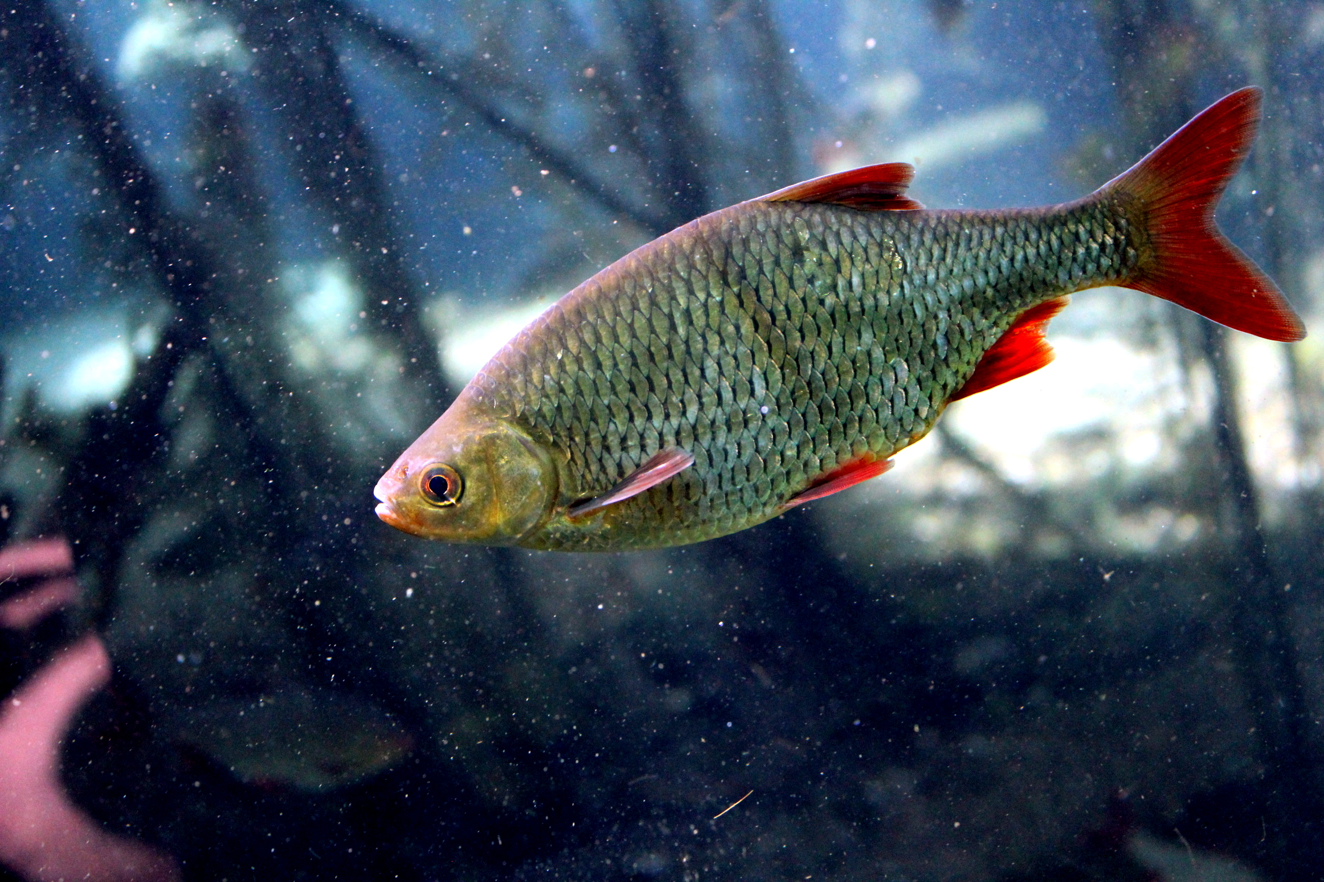 Common rudd (Scardinius erythrophthalmus) at Wrocław Zoo